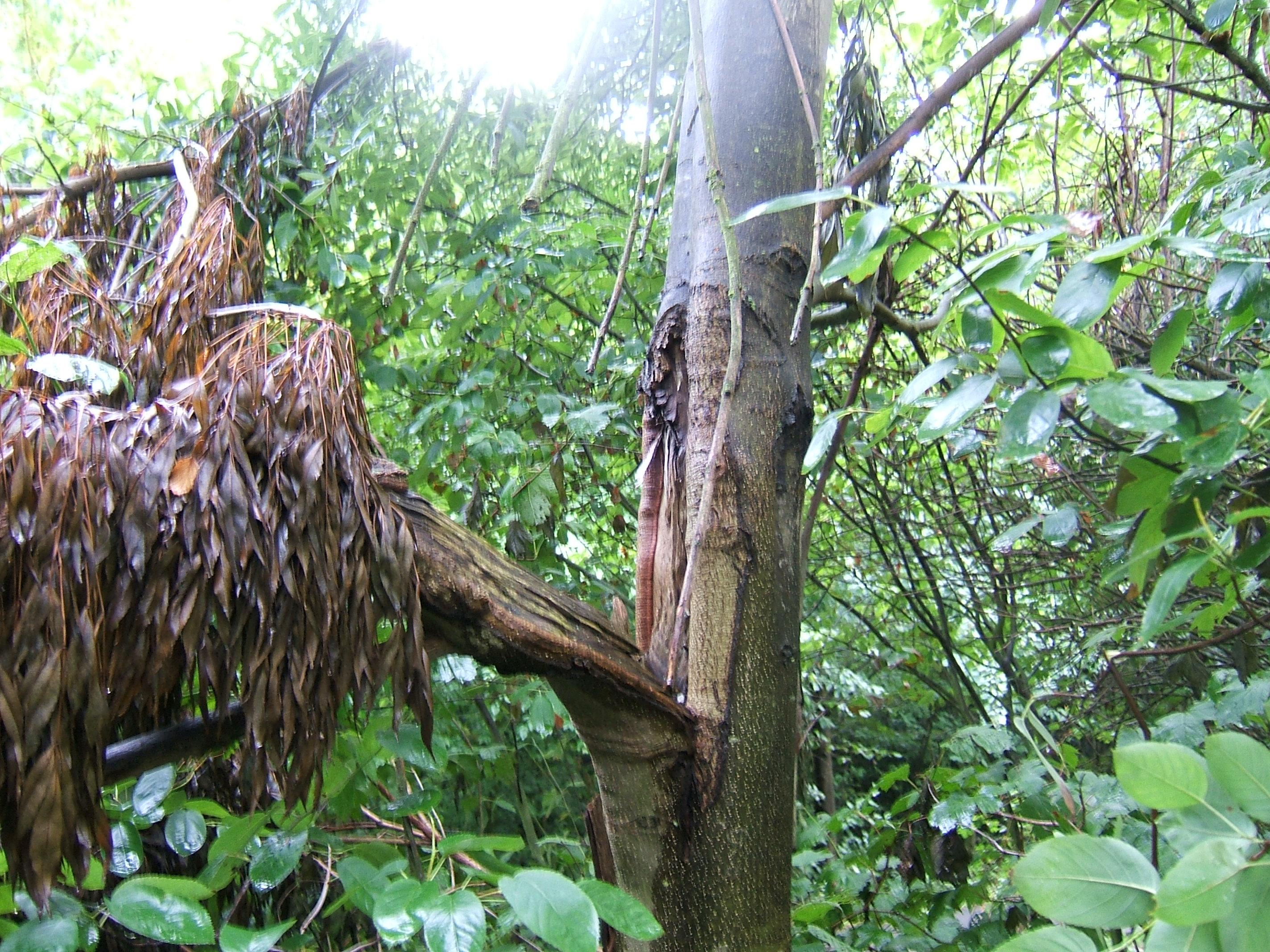 Fraxinus angustifolia 'Raywood' trunk, showing broken branch (a common failing of this cultivar). Planted, Northumberland, UK; 20 August 2006